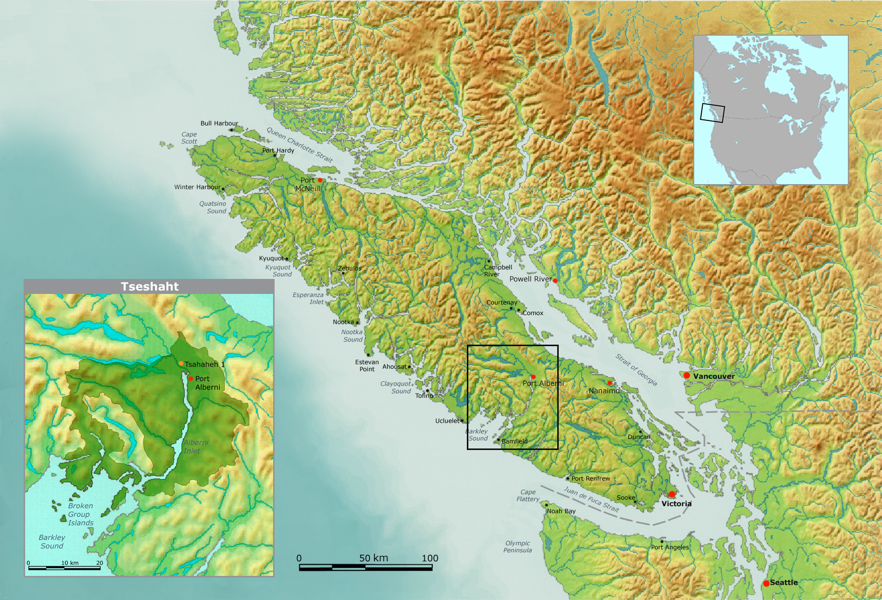 Map of Tseshaht tribal territory.